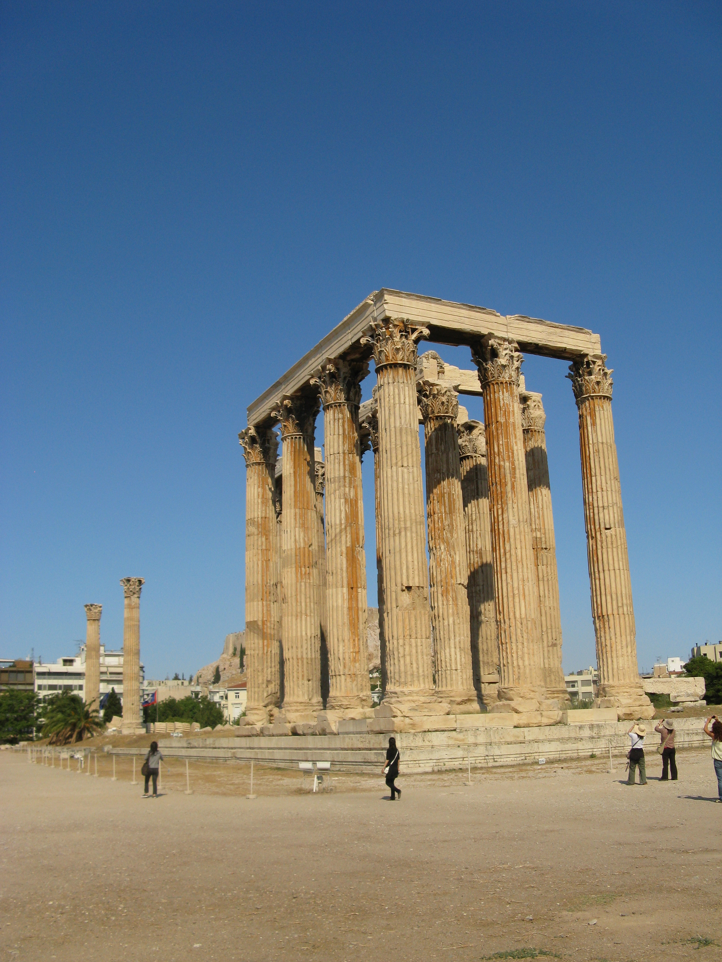 Temple of Olympian Zeus (Athens)